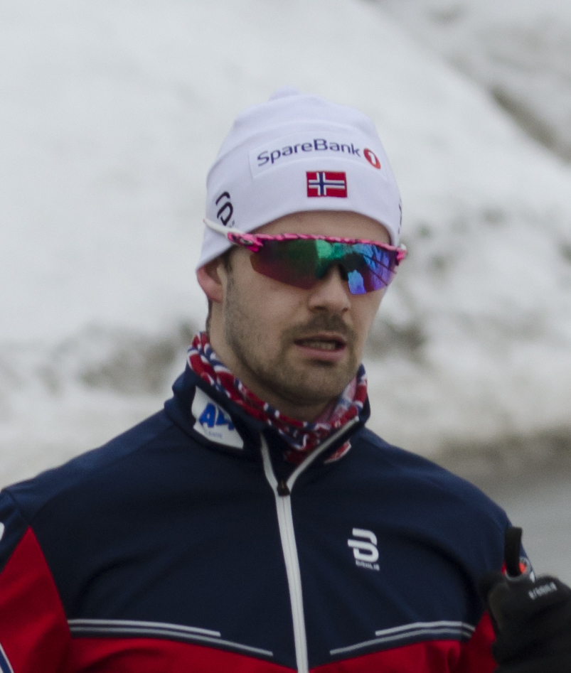 Cross-country skier Sondre Turvoll Fossli warming up before the Drammen ski sprint in 2018.